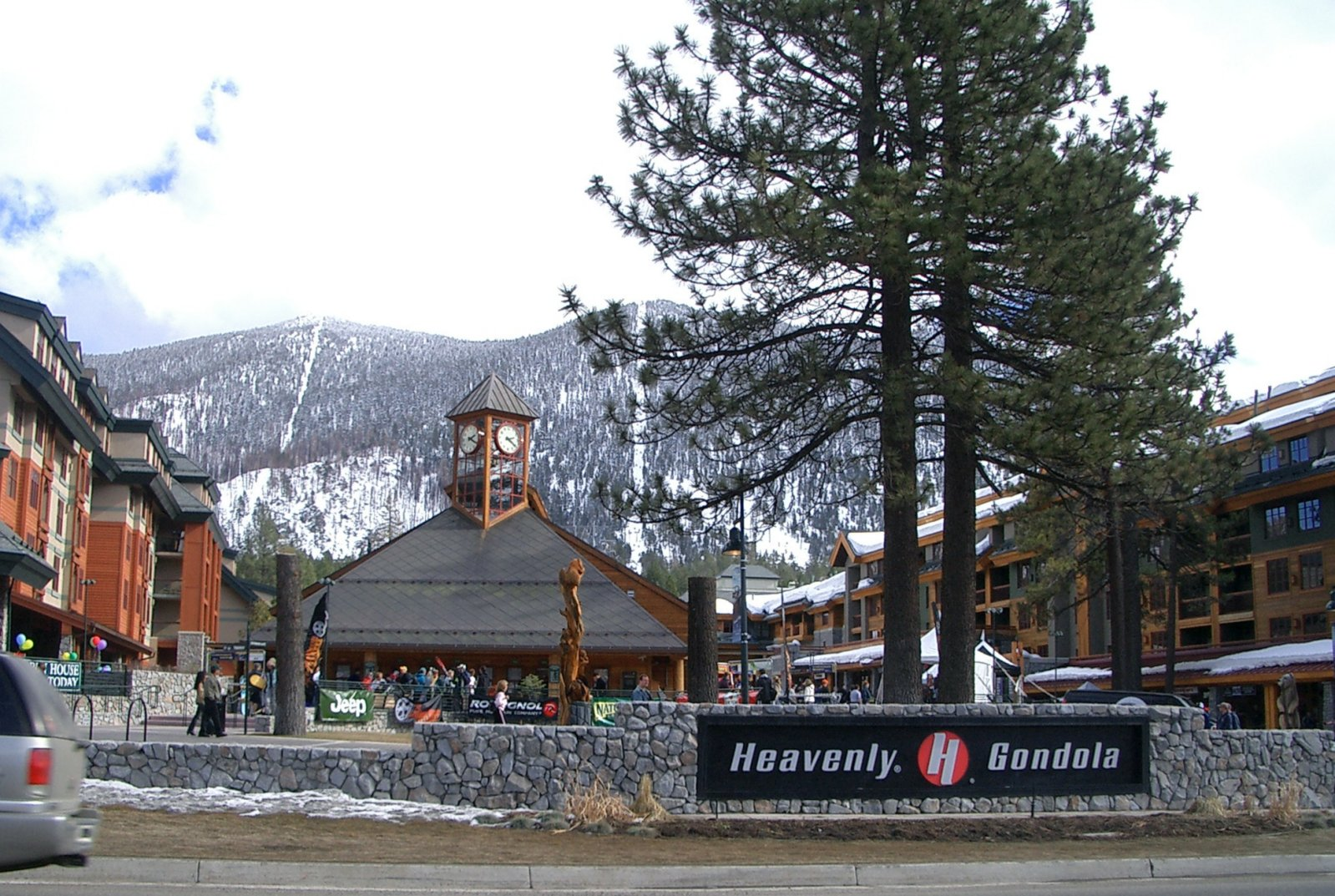 Heavenly Ski Resort gondola lift base, fronting U.S. Highway 50. Photo by User:ChrisRuvolo Feb 26, 2005. Original: This version is rotated, cropped and scaled.